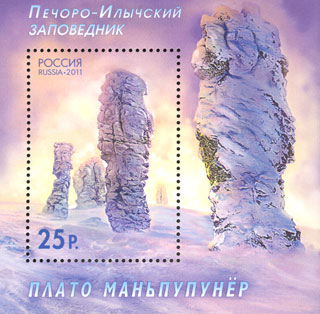 Souvenir sheet Ilych Nature Reserve. The Manpupuner Plateau